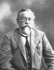 Akçuraoğlu Yusuf Bey/Yusuf Akçura (Akçora)